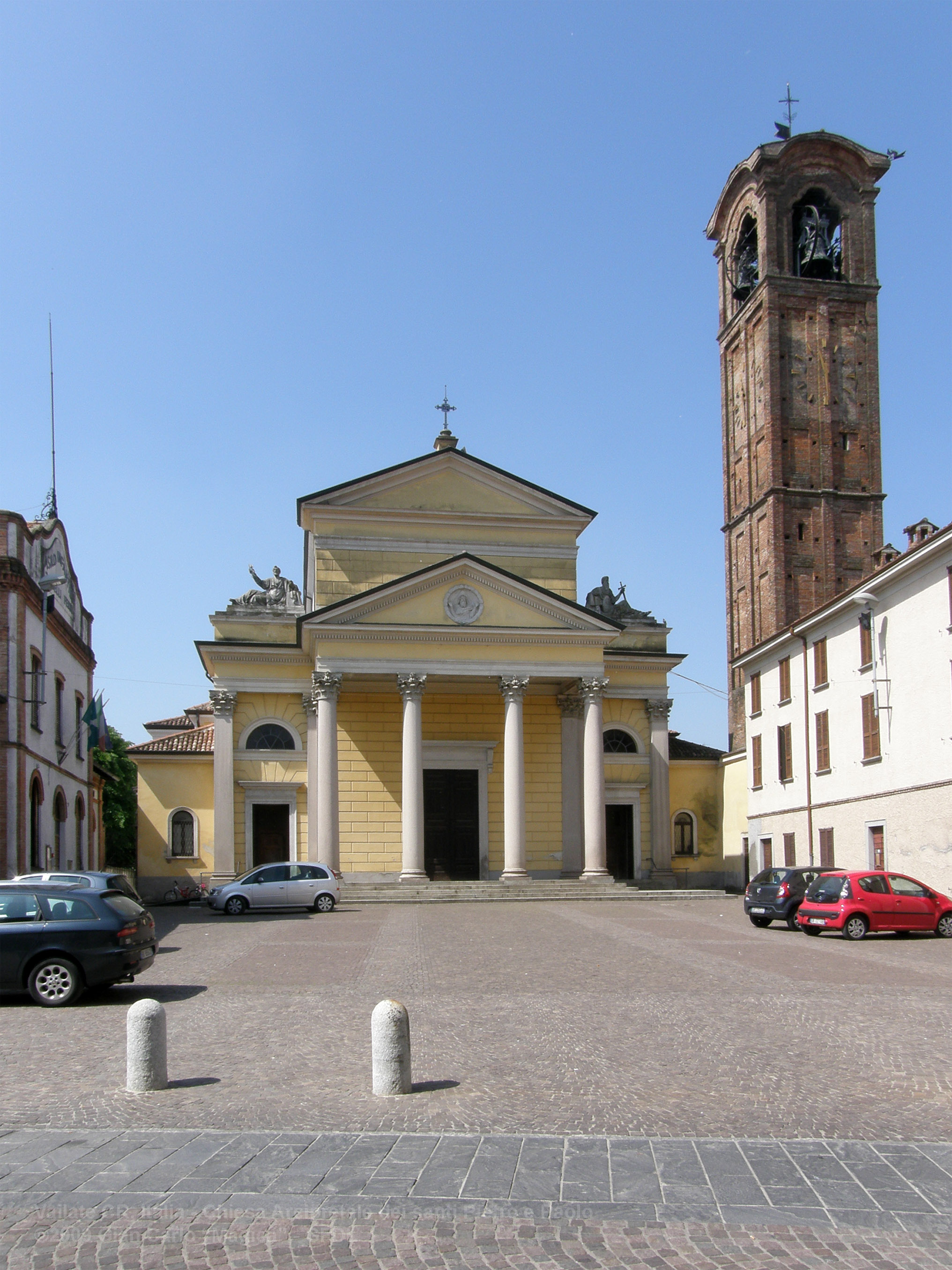 Vailate CR, Italy - Parish Church